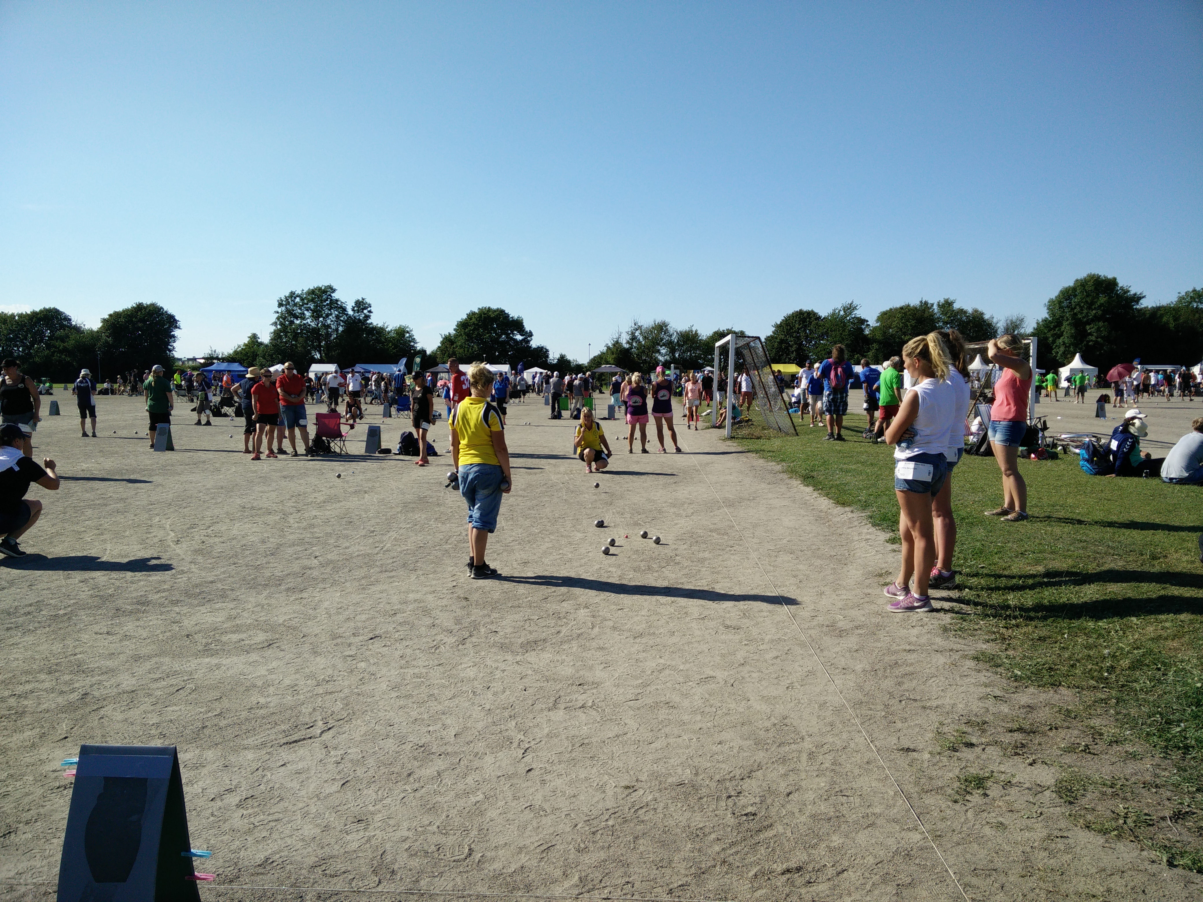 Swedish pétanque championships 2016.